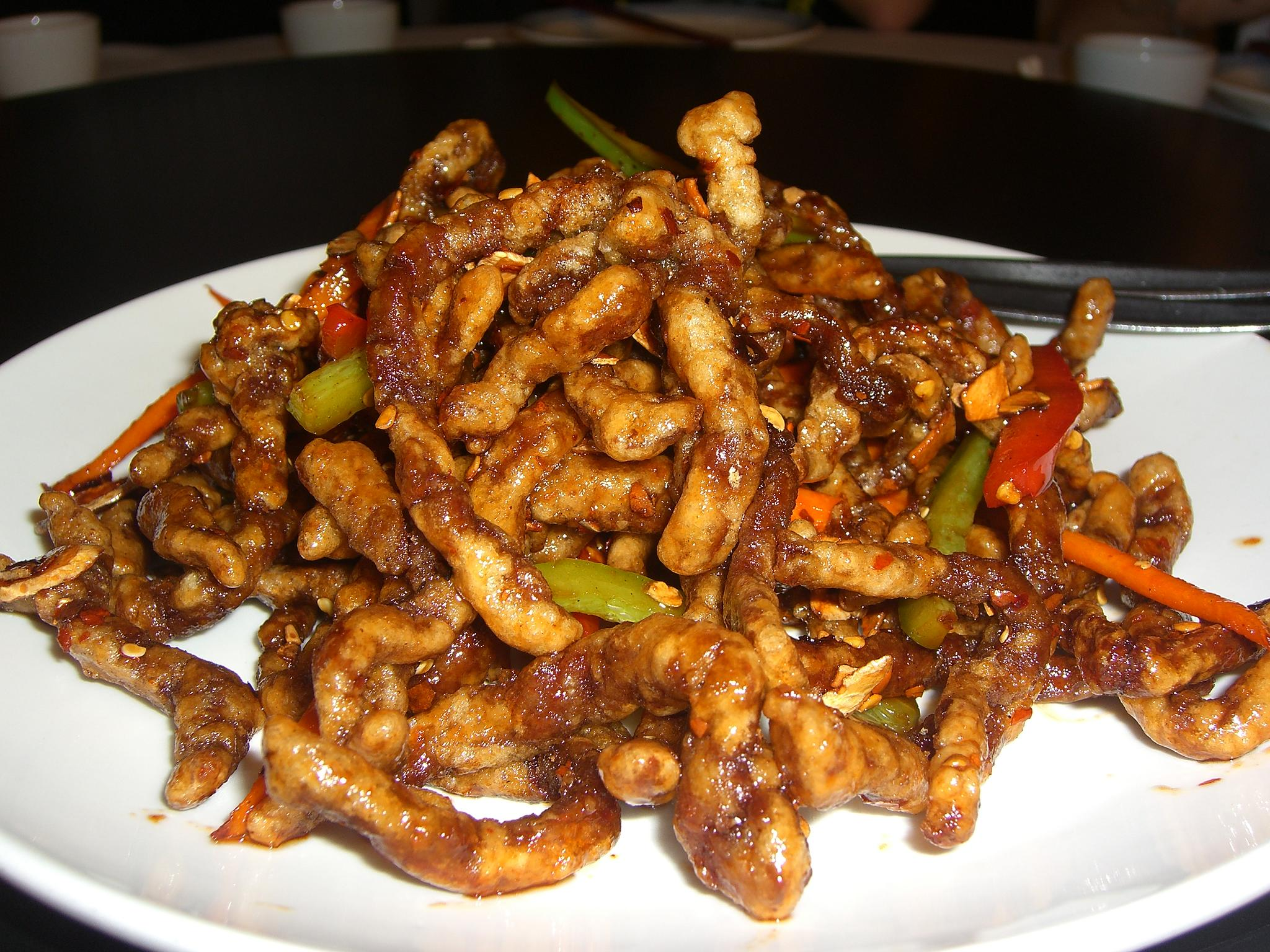 宋家私房菜 Sung's Kitchen (03) 9329 2636 118 Franklin St Melbourne VIC 3000 .au/ Photos: - [ 菊花鱼 Chrysanthemum Fish] - [ 西湖鸭 Westlake Duck] - delicious duck with a smokey flavour and a sweet and sour sauce - [ 椒盐鲜鱿 Salt and Pepper Calamari] - thick batter, tasteless calamari - [ 熏鱼 Smoked Fish] - [ 豆腐炒菜 Tofu and Vegetable Stir-fry] - [ 干煸牛肉丝 Crispy Beef Strips] - nice crispy batter that soaked up the sauce and kept the beef moist inside - [ 竹旬雪菜 Bamboo and Snow Vegetable] - the "snow vegetable" had a very interesting texture, chewy but with a crunch